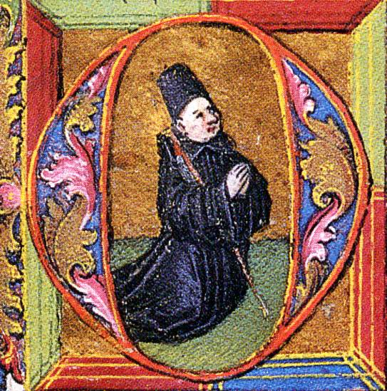 Enluminure showing Ulrich Rösch praying. Rösch was abbot of St. Gall from 1463-1491.